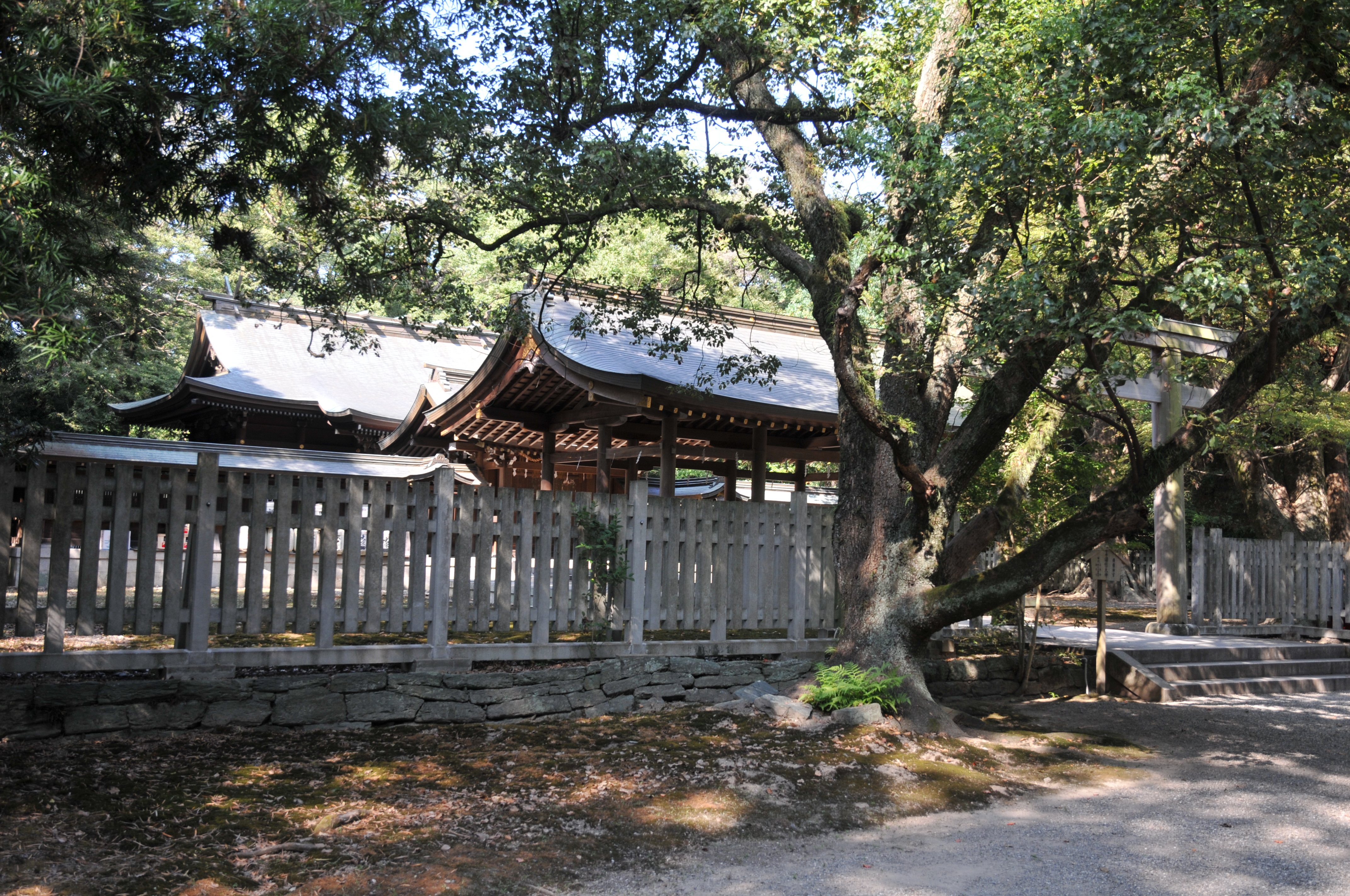 Kunikakasu-jingu